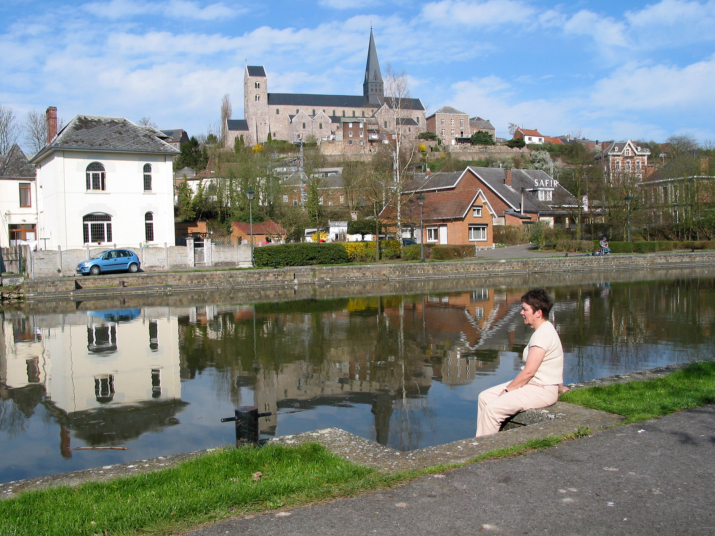 Lobbes (Belgium), the Sambre river the St Ursmar Collegiate church (XIth century).